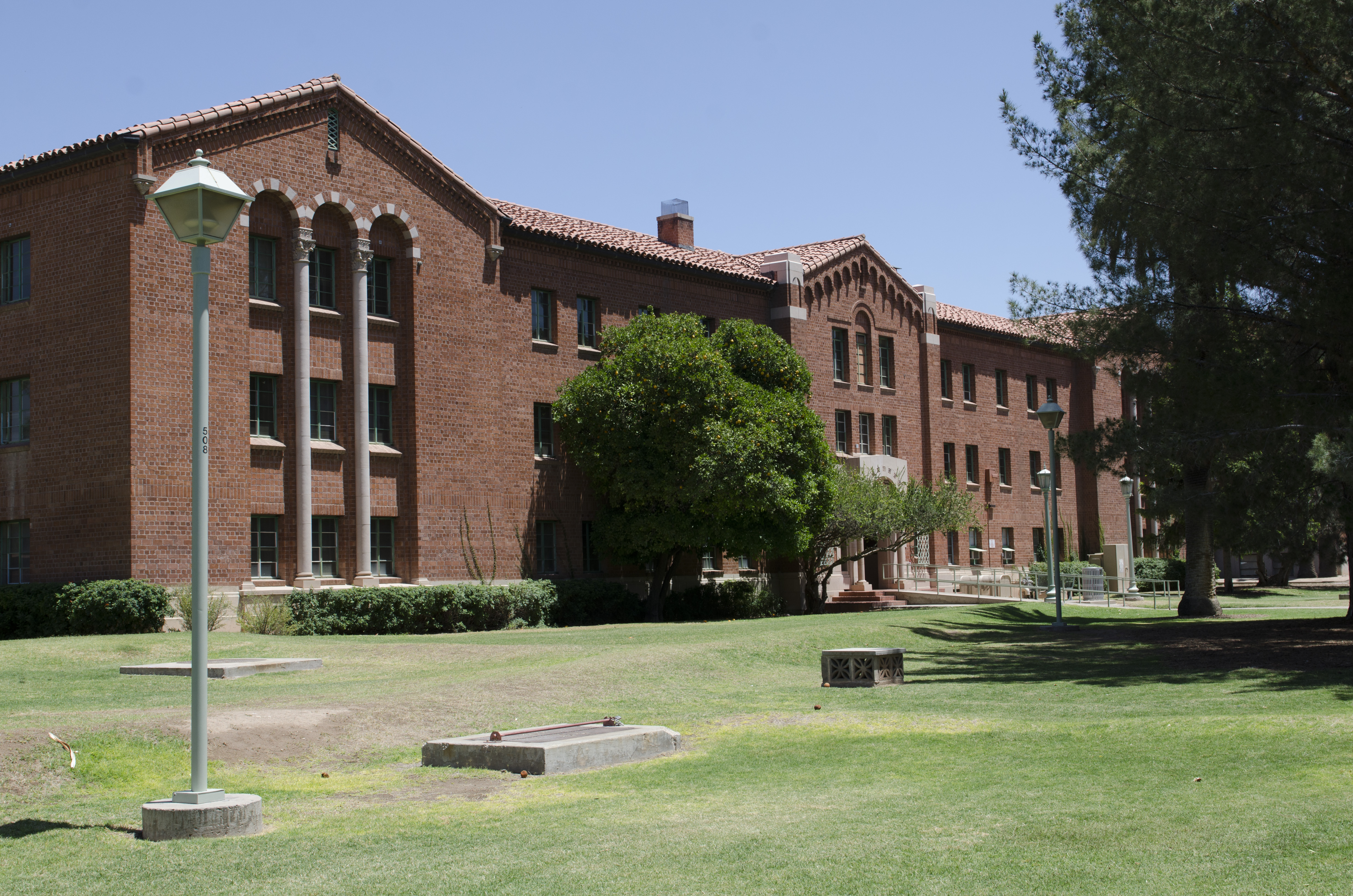 University of Arizona, Tucson, Arizona